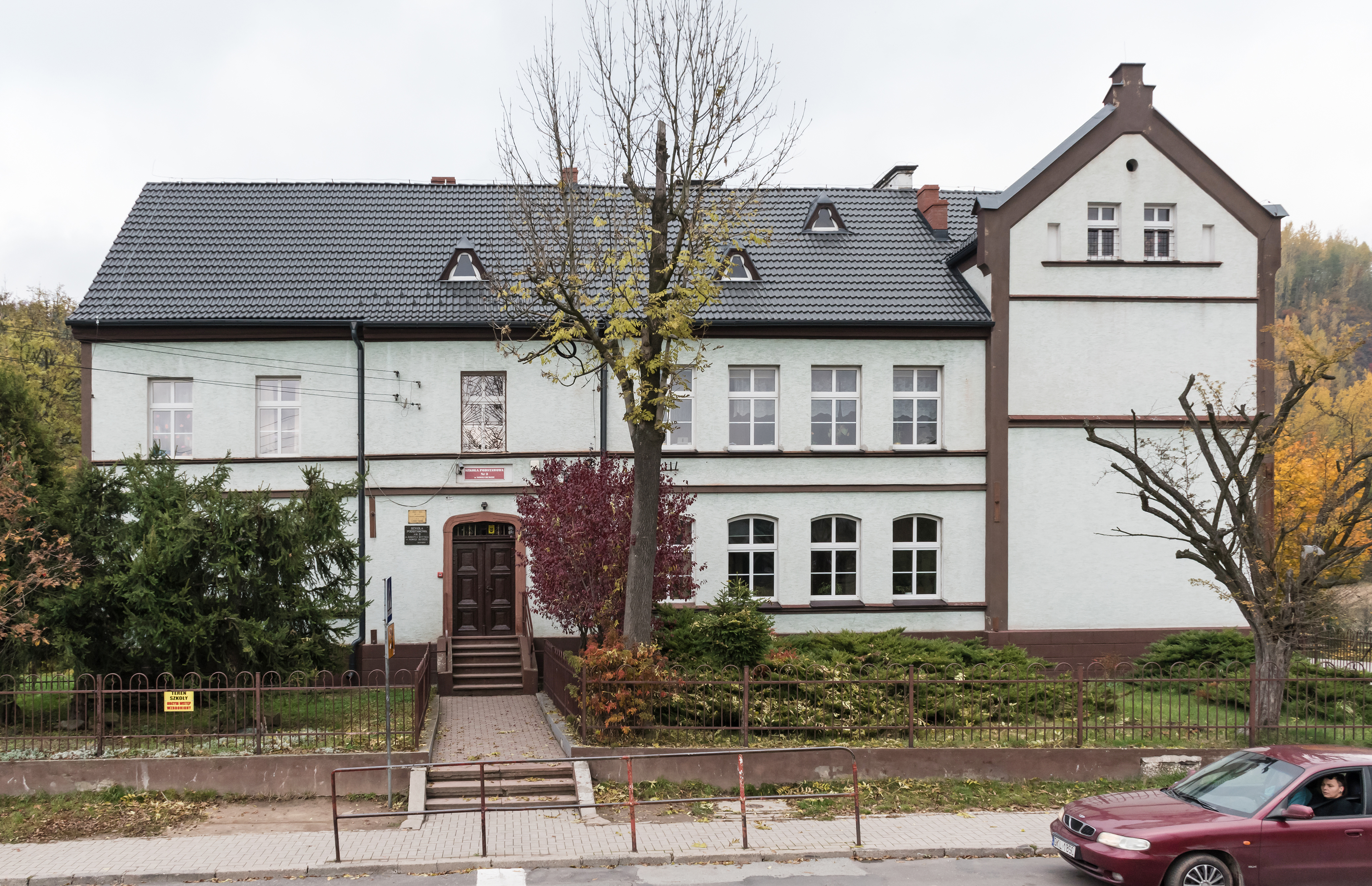 3rd primary school in Nowa Ruda